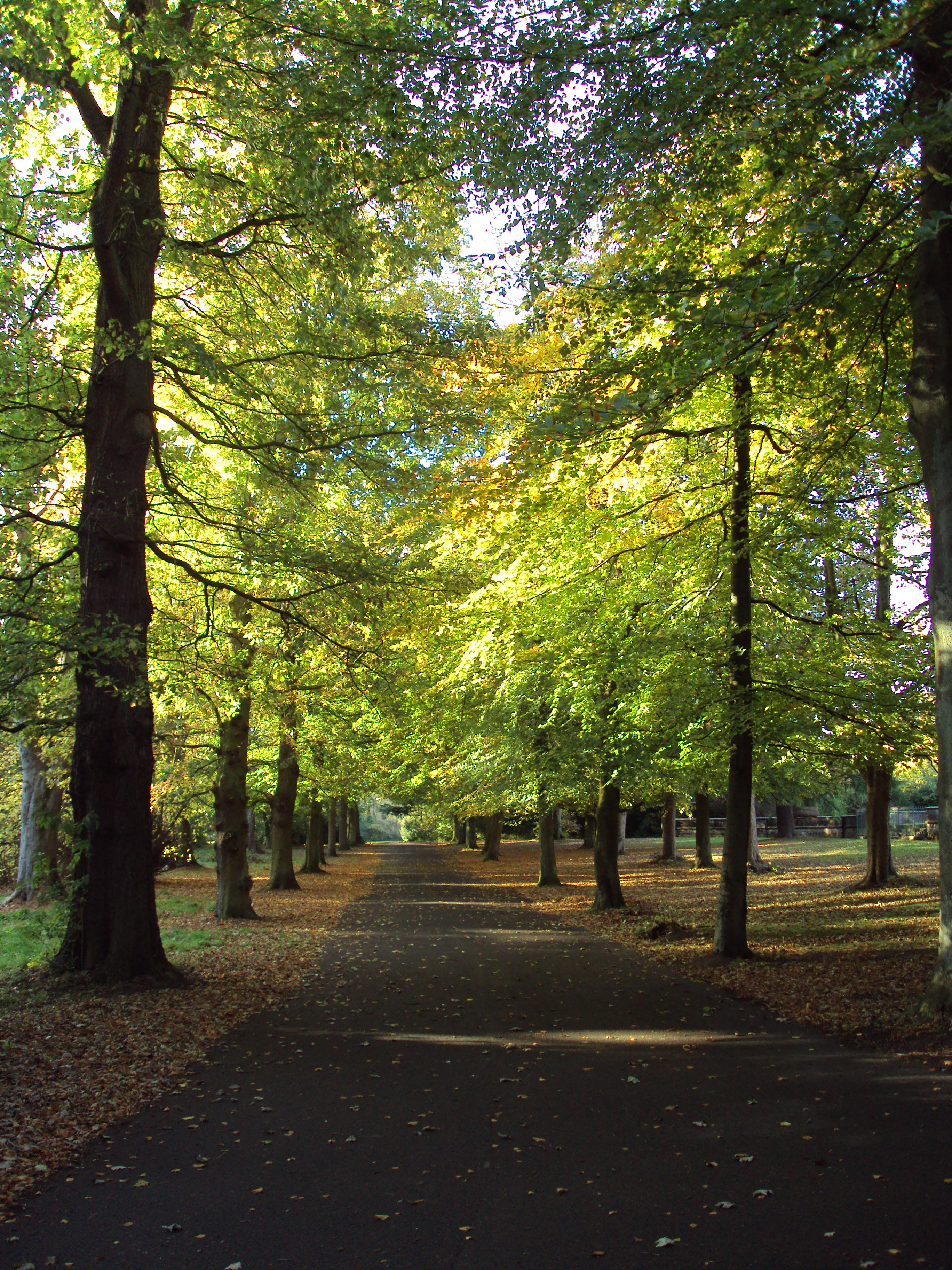 Tree-lined path runs through Arrowe Park, Wirral, Merseyside, England.